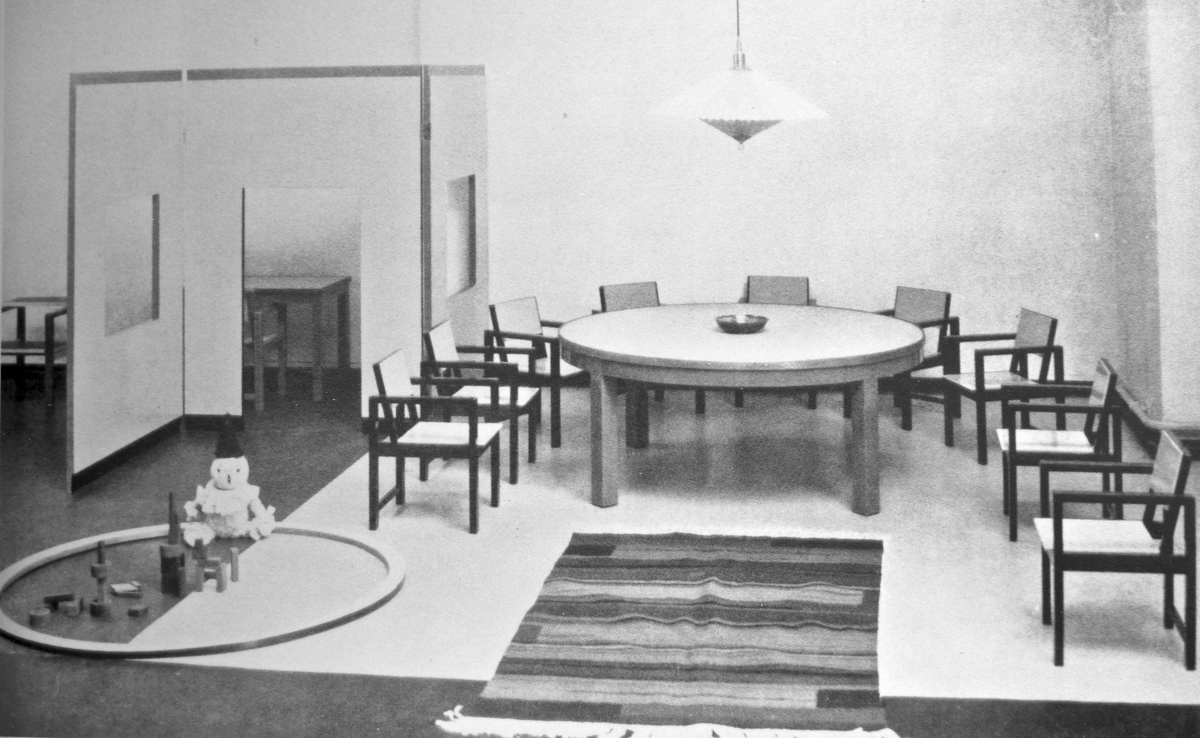 Interior design by Erich Dieckmann (1896–1944) of a game room for the Feodora nursery in Weimar, Thuringia, Germany, in 1930